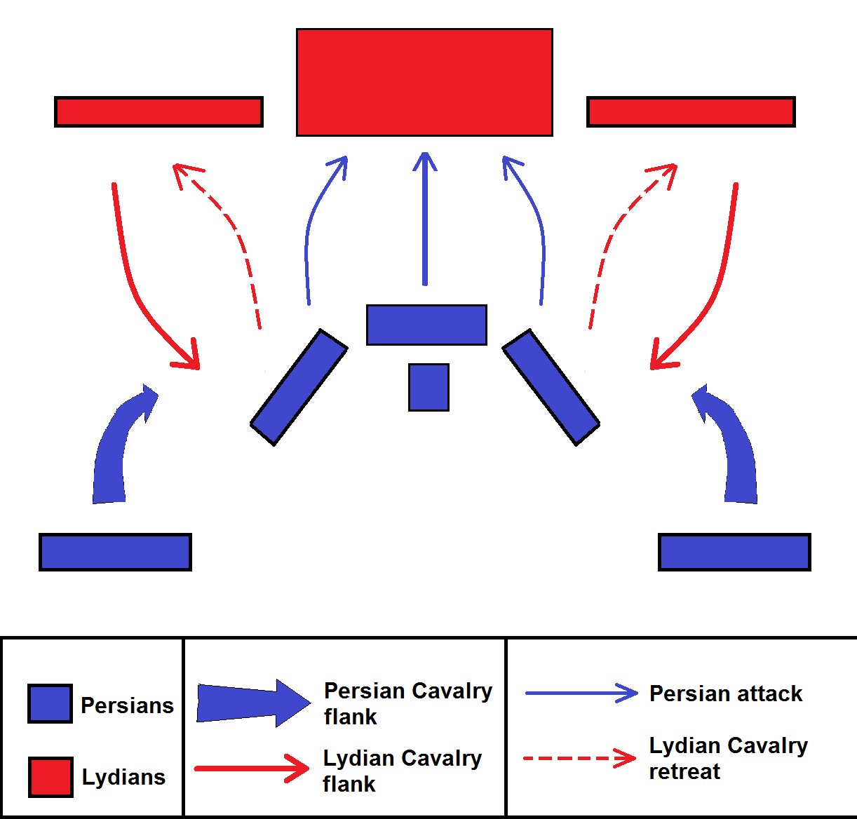 battle formations and strategy used at the battle of thrymbra + a legend